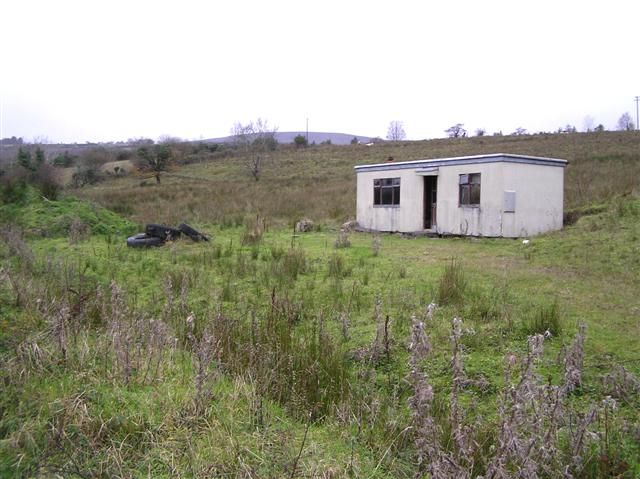 Near Swanlinbar Looking west from Mill Street